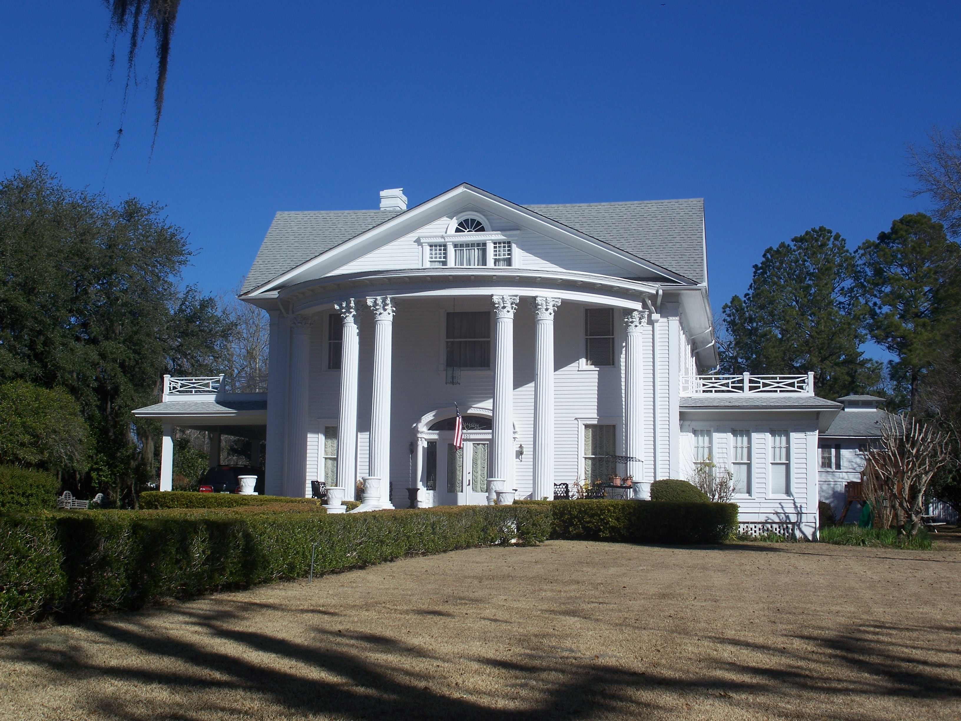 Quincy, Florida: Quincy Historic District: Davidson House